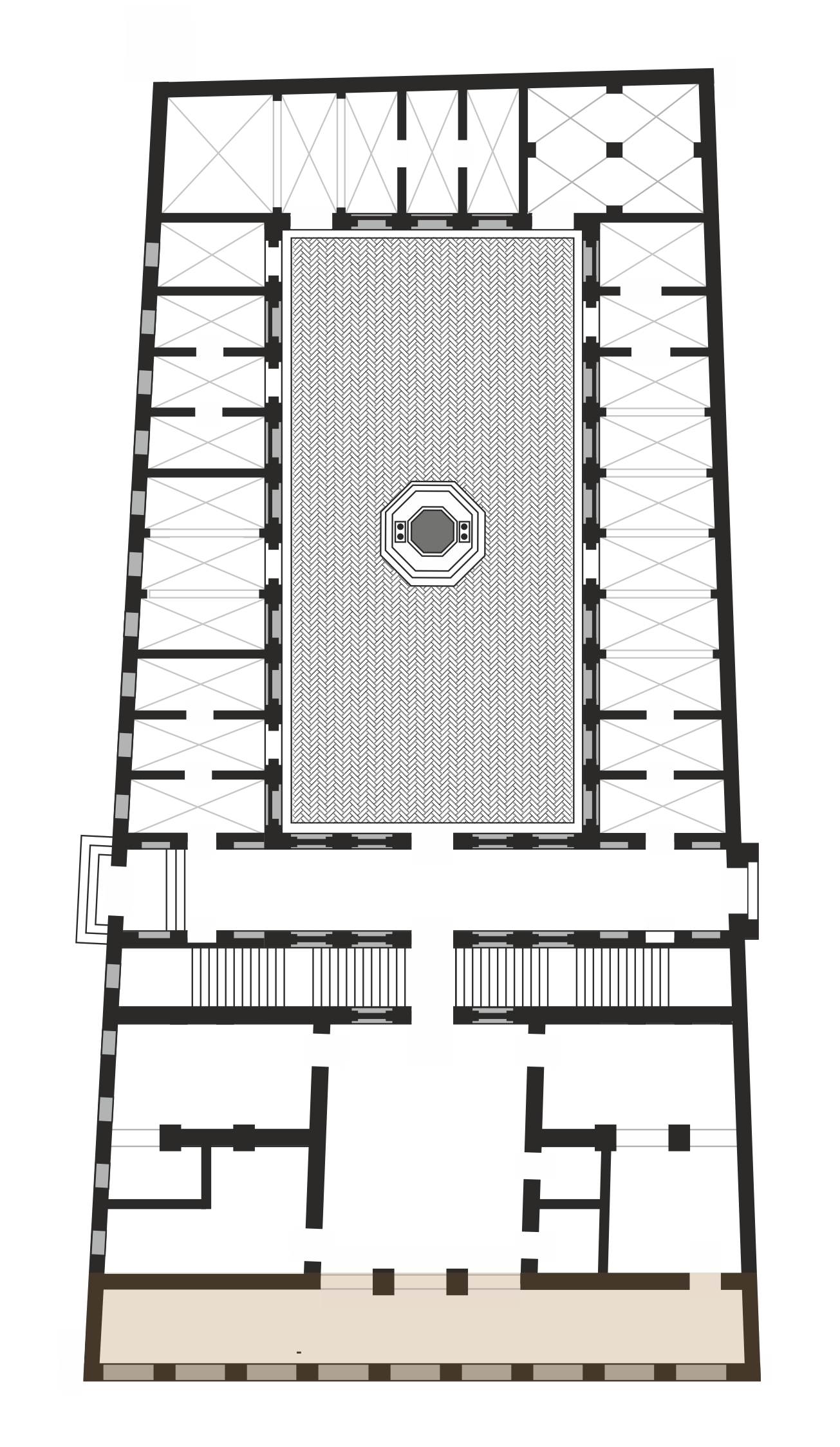 Diagram of the Zecca of Venice based on Zanotto, Francesco, Fabbriche e i monumenti cospicui di Venezia illustrati da L. Cicognara, da A. Diedo e da G. A. Selva, 1858, Venezia, Giuseppe Antonelli e Luciano Basadonna, vol. I, tav. 52